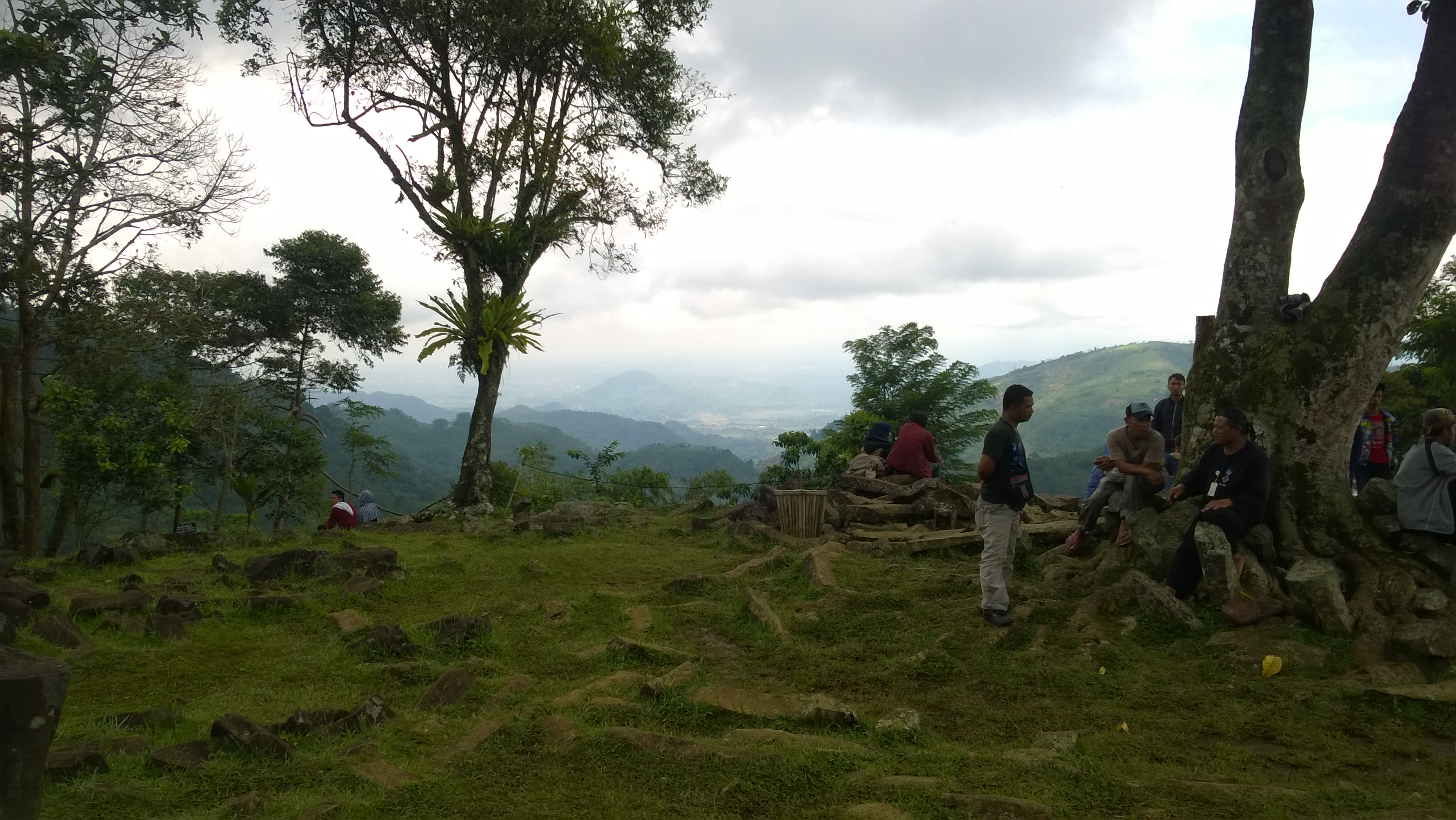 This beautiful view is taken from Gunung Padang, Cianjur, West Java